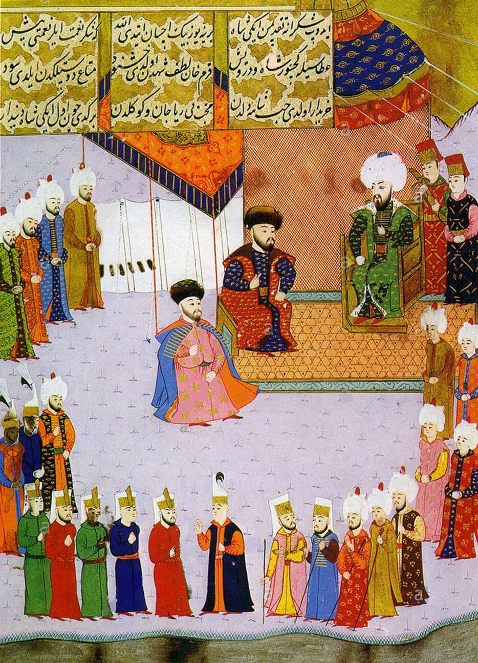 Meñli I Giray (centre) with the eldest son, future khan Mehmed I Giray (left) and Turkish sultan Bayezid II (right).